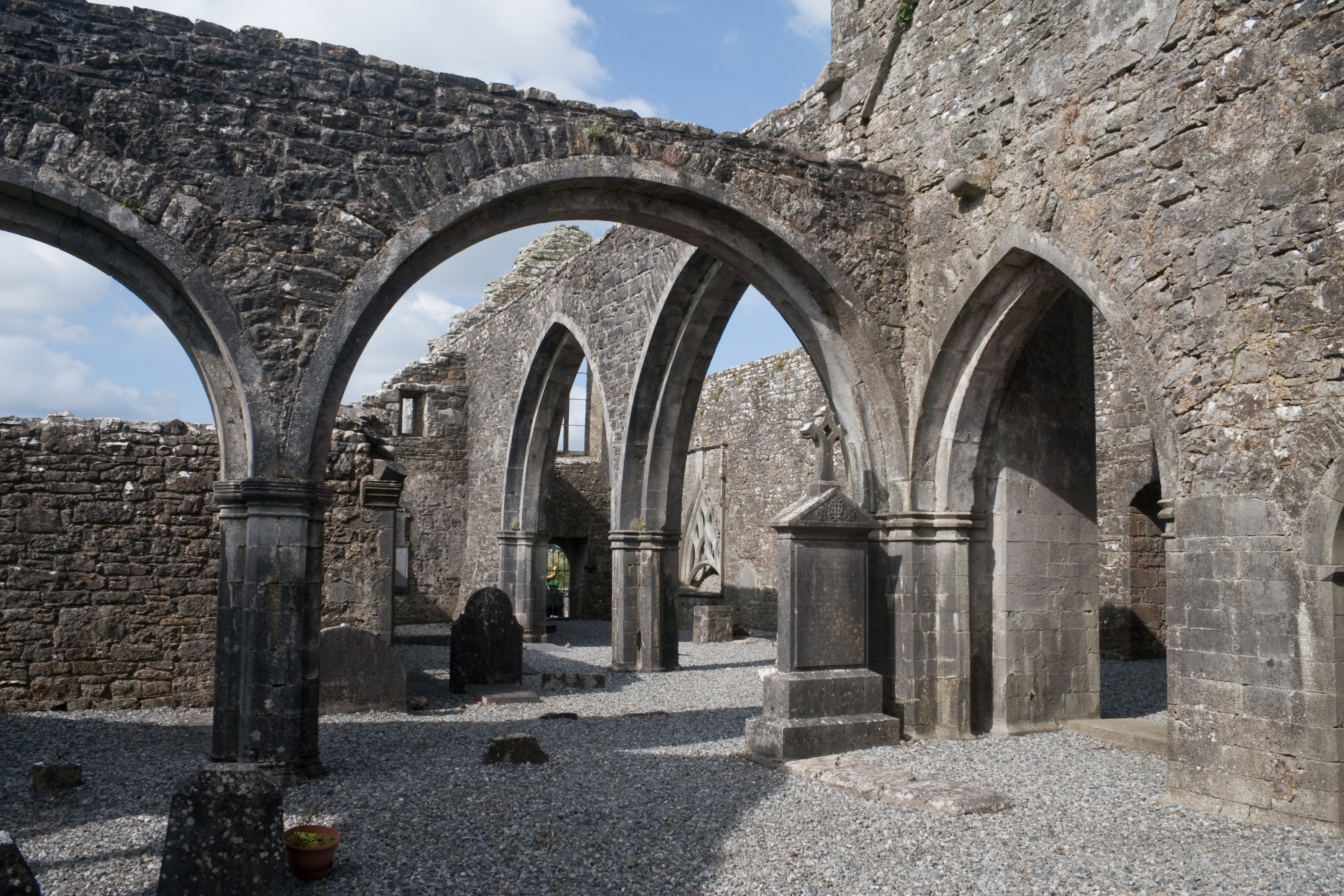 Kilconnell Friary, County Galway, Ireland View from the south transept through the aisles into the nave, looking north-west.